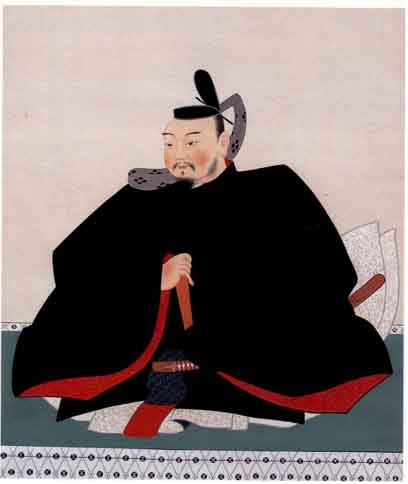 Sassa Narimasa the Japanese warlord of the Sengoku through Azuchi-Momoyama period